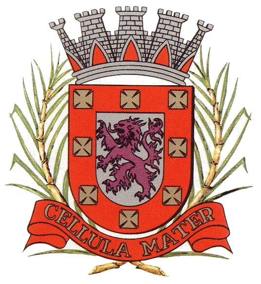 (Brasão do município de São Vicente, estado de São Paulo, Brasil. Fonte: Trabalho próprio; Coat of Arms of the city of São Vicente, São Paulo state, Brazil. Own work; Emerson This work is in the public domain in Brazil for one of the following reasons: It is a work published or commissioned by a Brazilian government (federal, state, or municipal) prior to 1983.(Law 3071/1916, art. 662; Law 5988/1973, art. 46; Law 9610/1998, art. 115) It is the text of a treaty, convention, law, decree, regulation, judicial decision, or other official enactment.(Law 9610/1998, art. 8) )